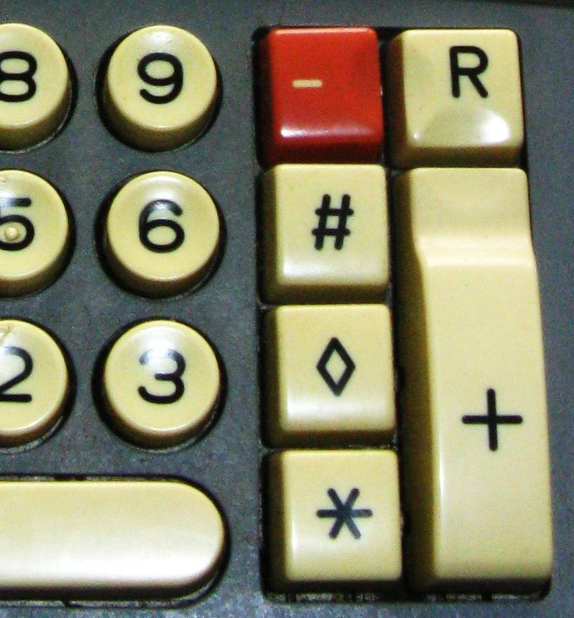 Right part of the keyboard of a desktop calculator produced in Germany about 1970 (Walther Multa 32). Detail of the original photo.